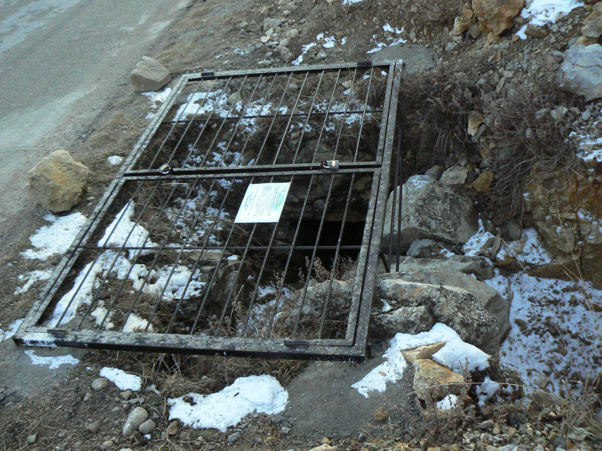 The entrance of Duhlata cave, Bulgaria